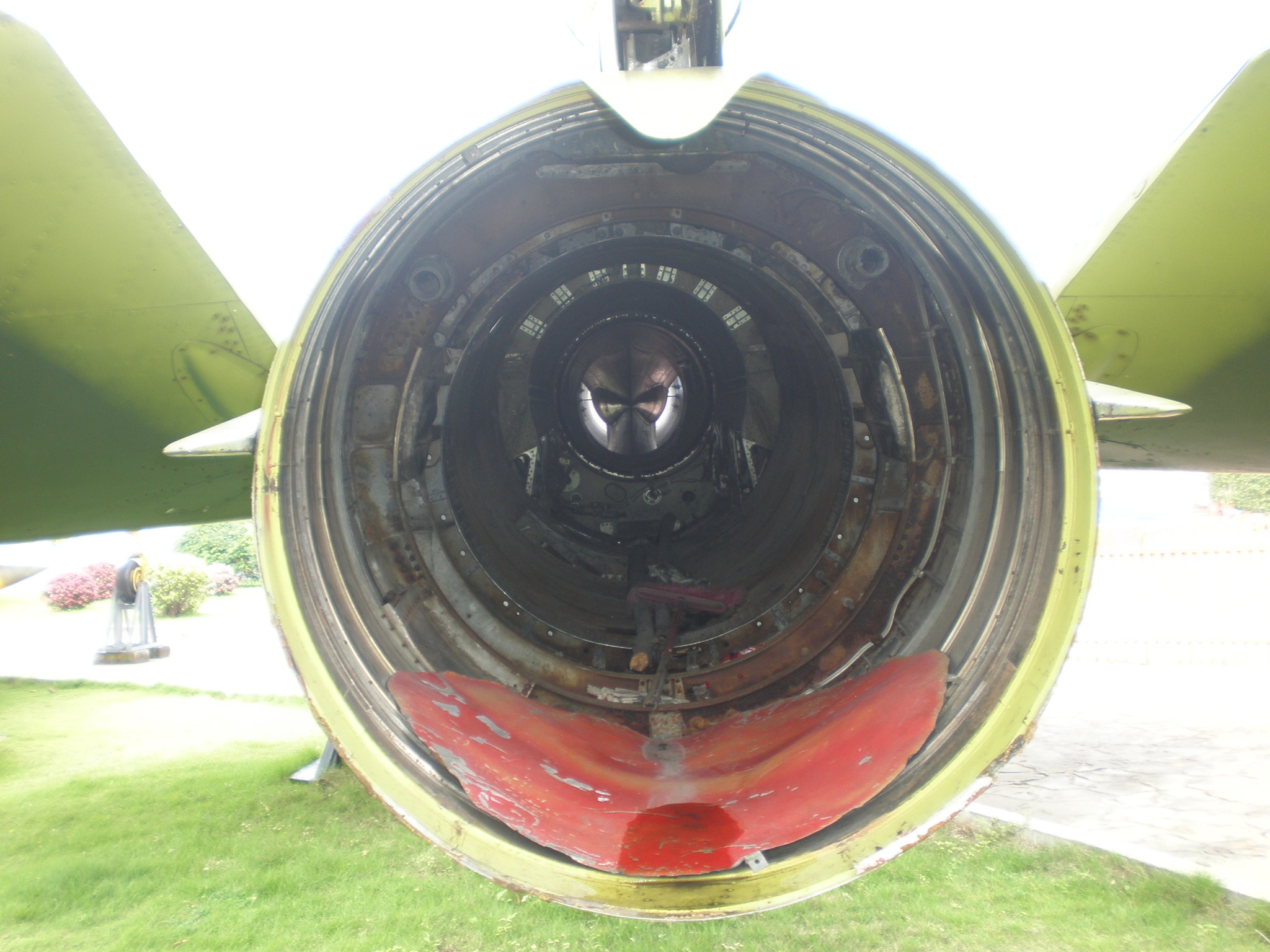 The engine of a Chengdu J-7 on display at the Minsk World military theme park in Shenzhen, China. The former Soviet aircraft carrier Minsk is the centerpiece of Minsk World.